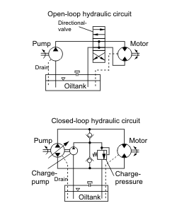 Hydraulic circuits open- & closed loop